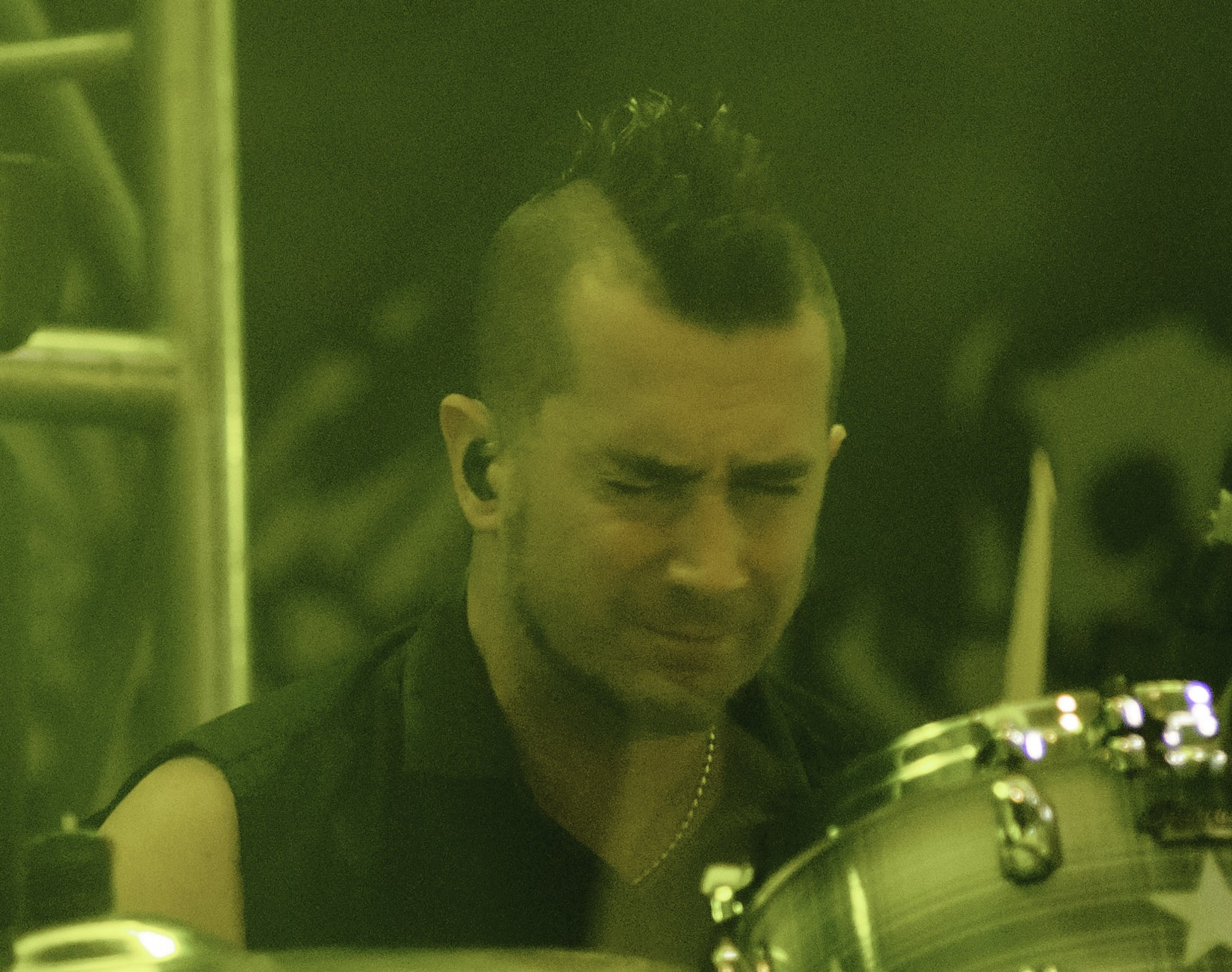 Pete Parada at Rock Allegiance 2016.